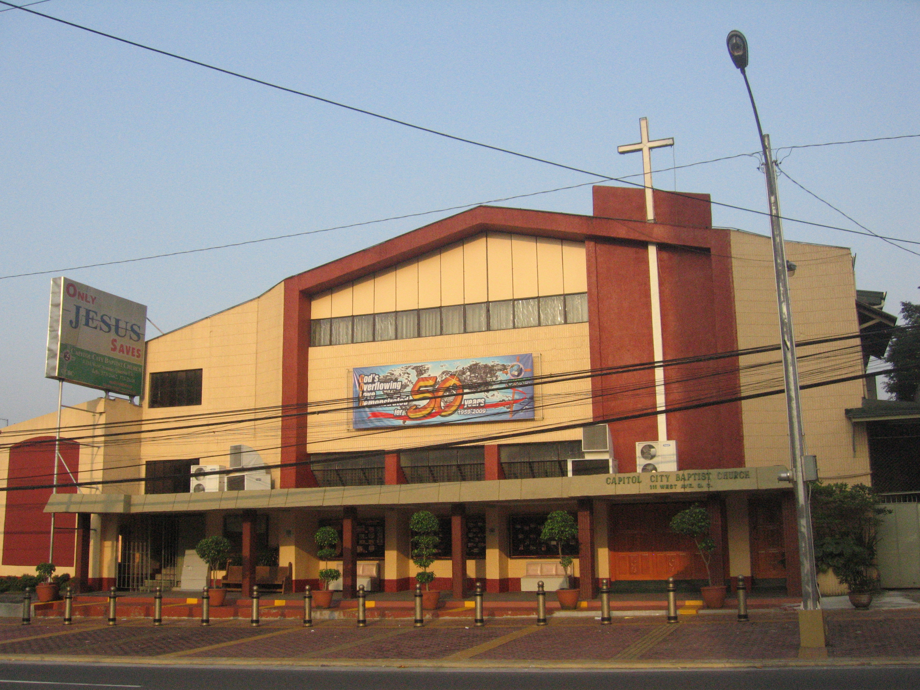 Facade of Capitol City Baptist Church (West Avenue, Quezon City)